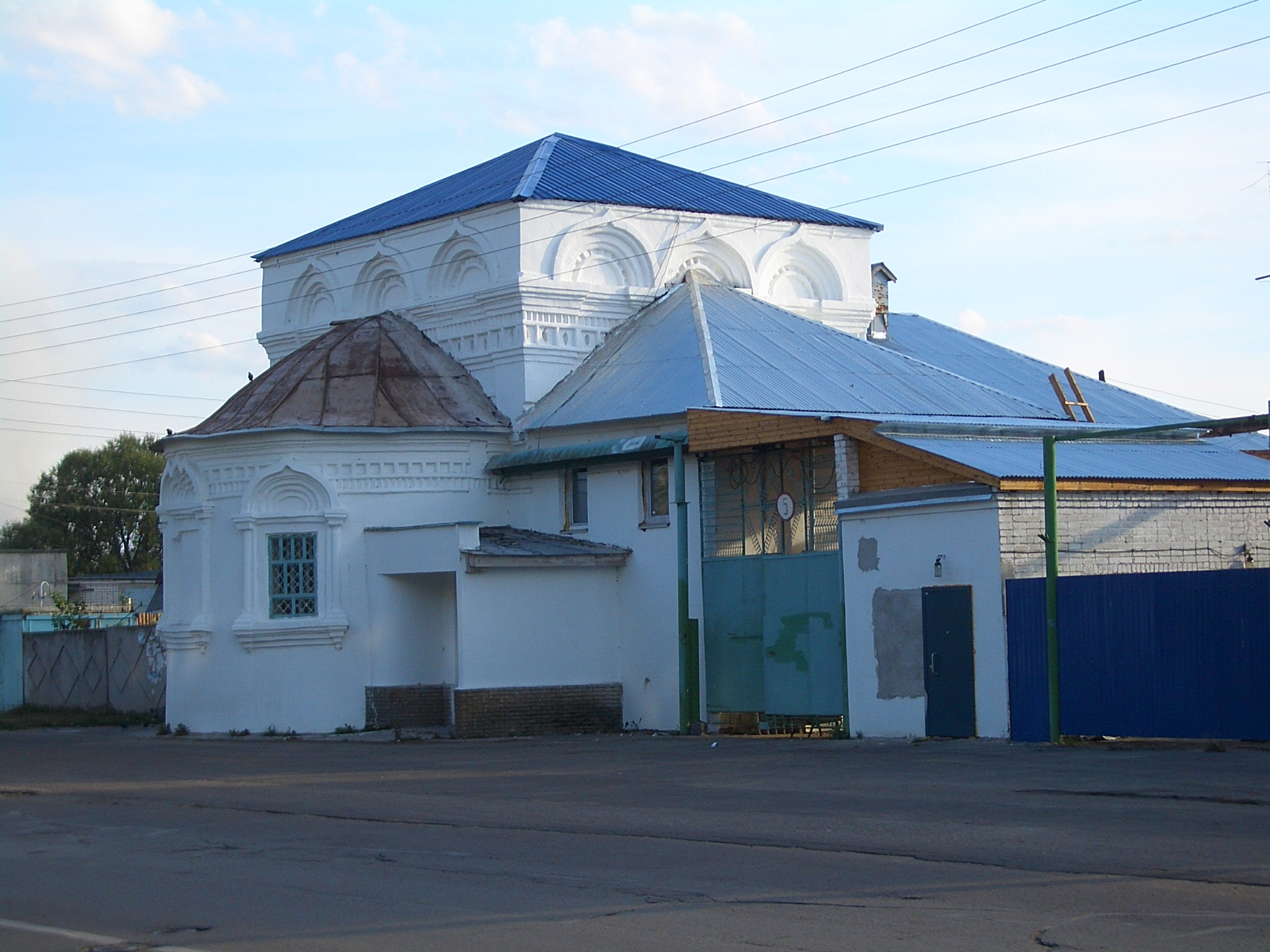 An older building in Balakhna (a few blocks from Saviour's Church)